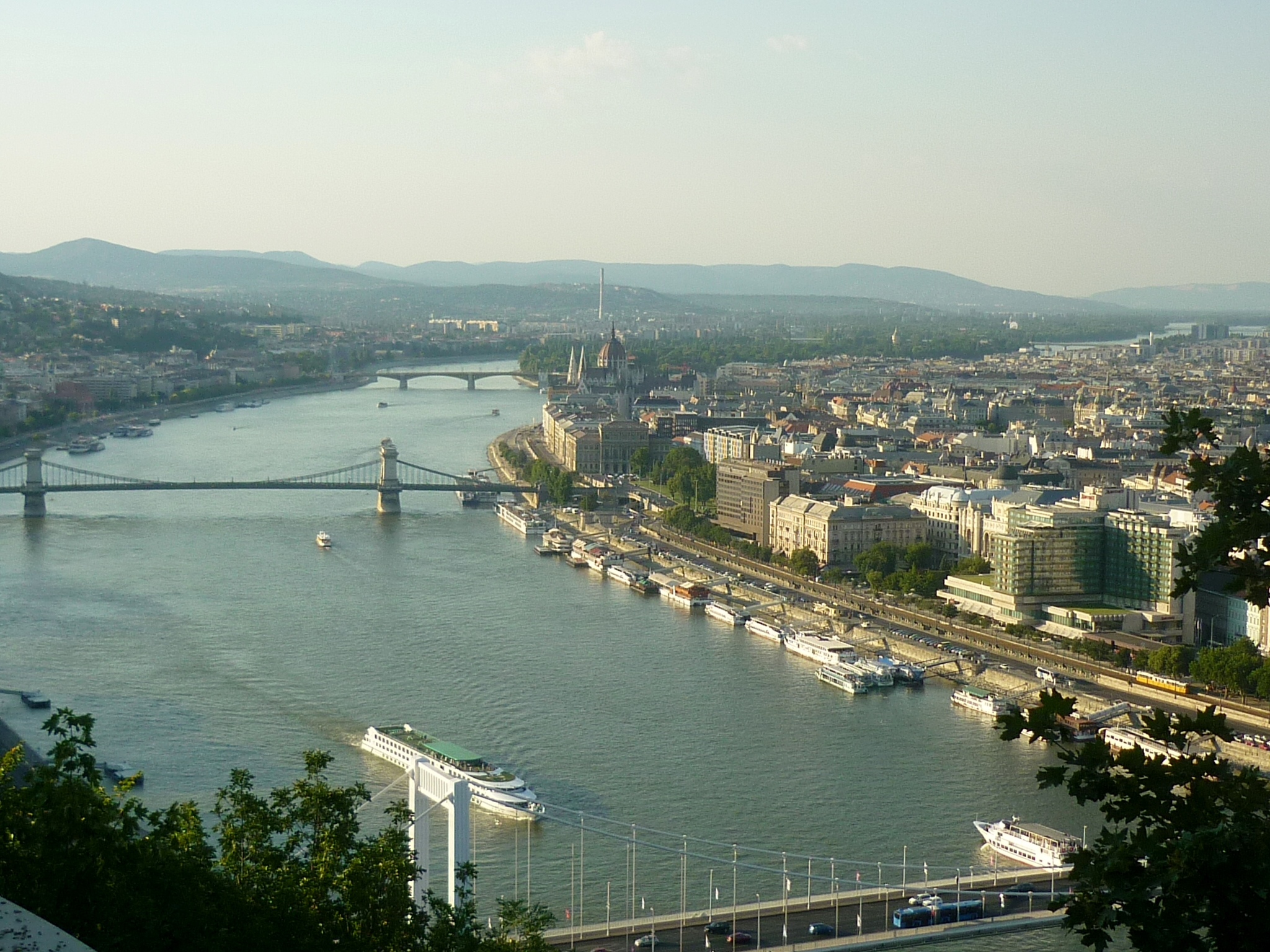 Danube in Budapest